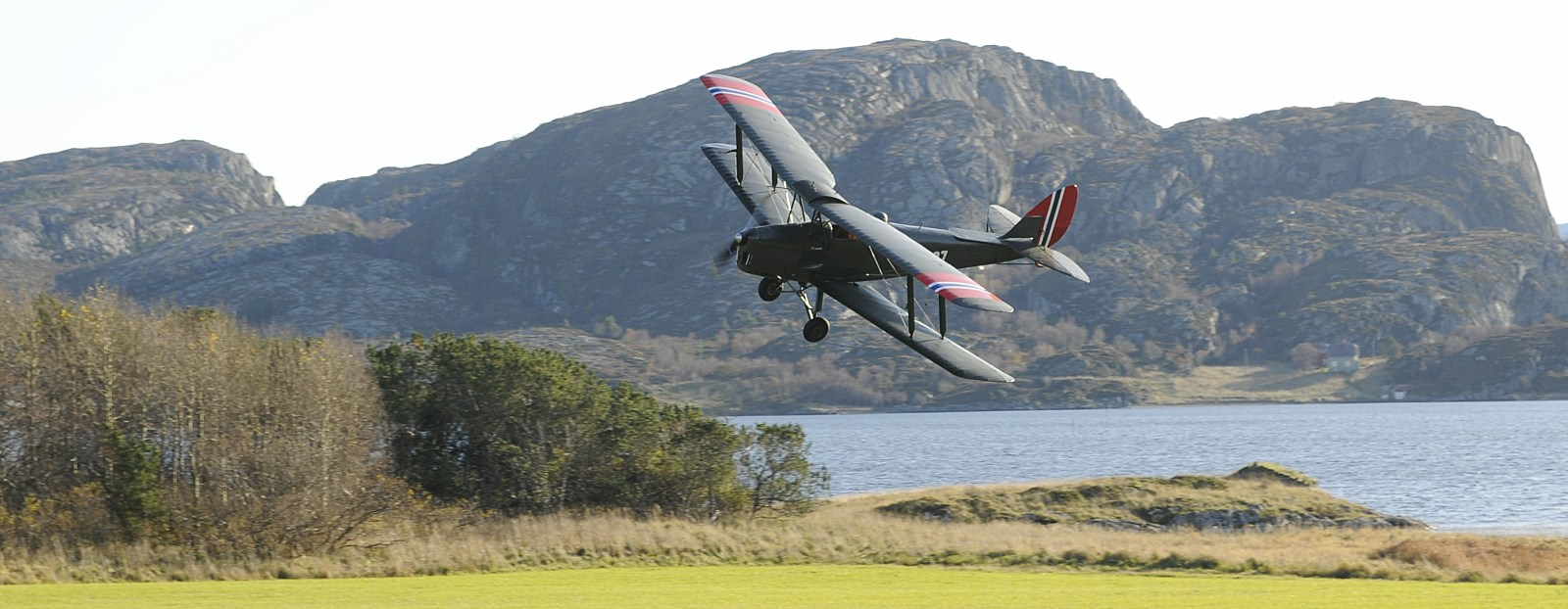 LN-MAX at Storfosna, October 2009